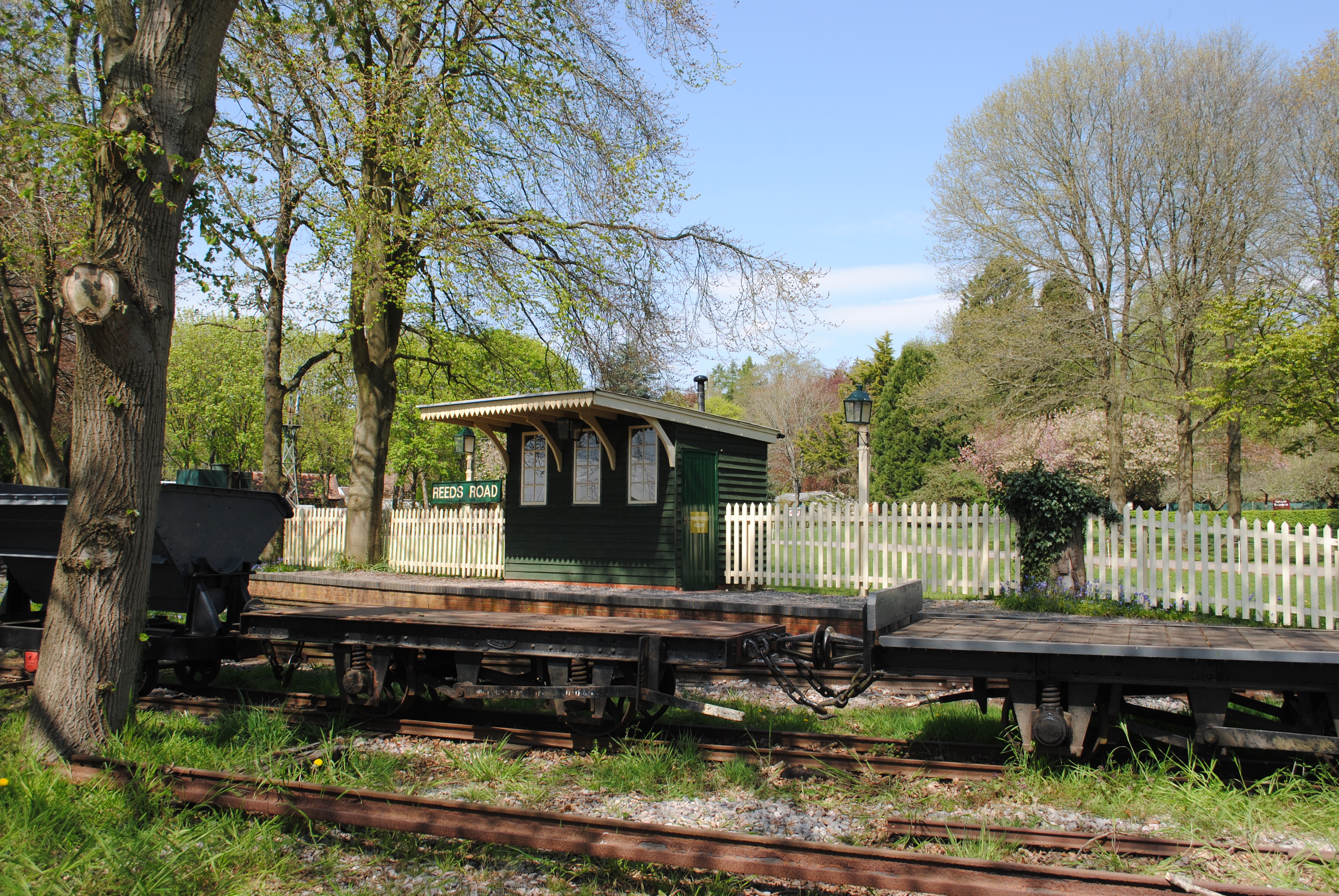 Located at the end of the line, Reeds Road stands in the Rural Life Museum as a terminus.